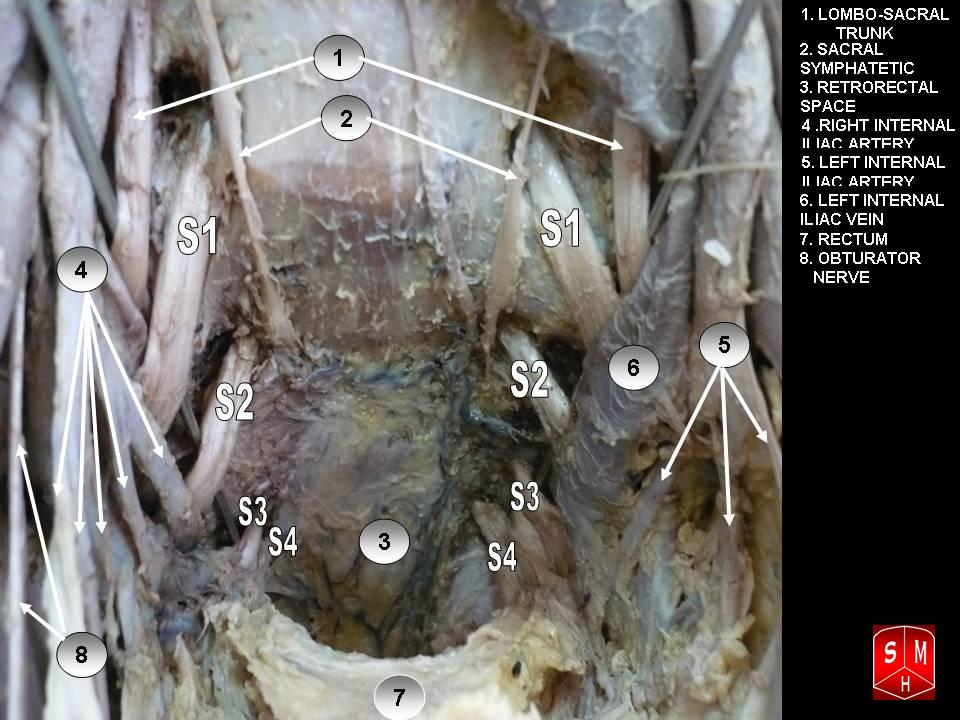 Anatomical dissection